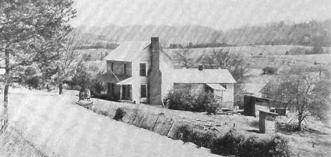 An I-house in the former community of Wheat, Tennessee, USA. This community was once located in what is now Oak Ridge.